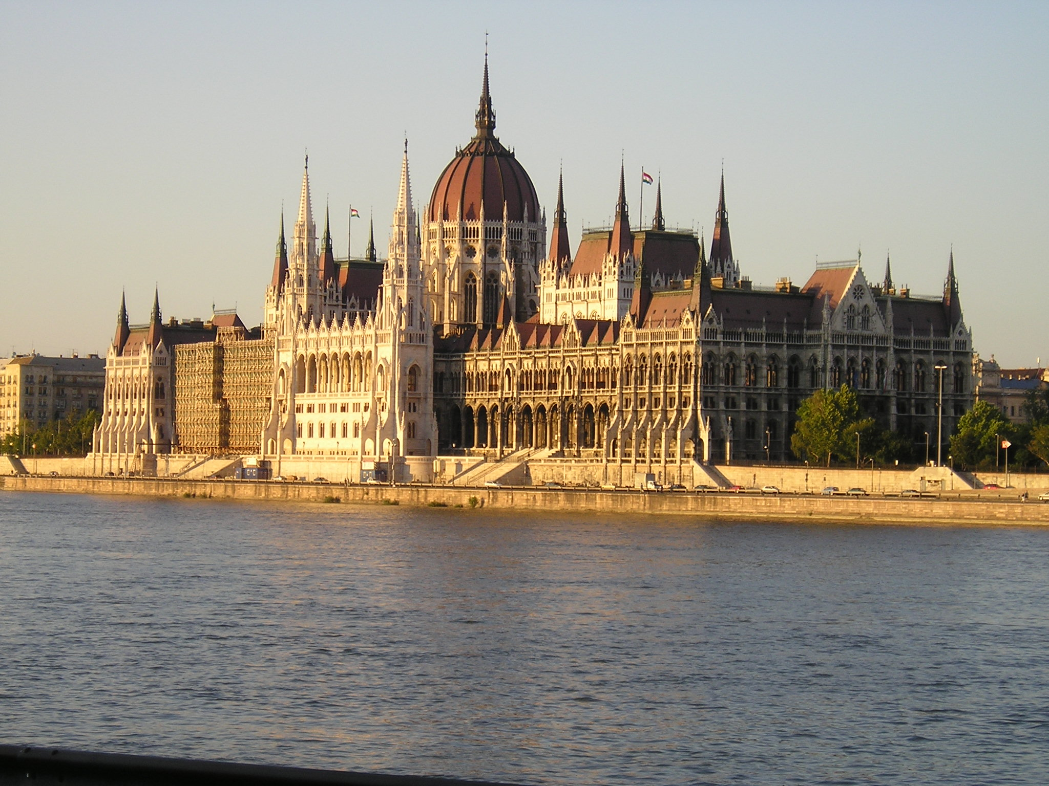 House of Parlament, Budapest, Hungary